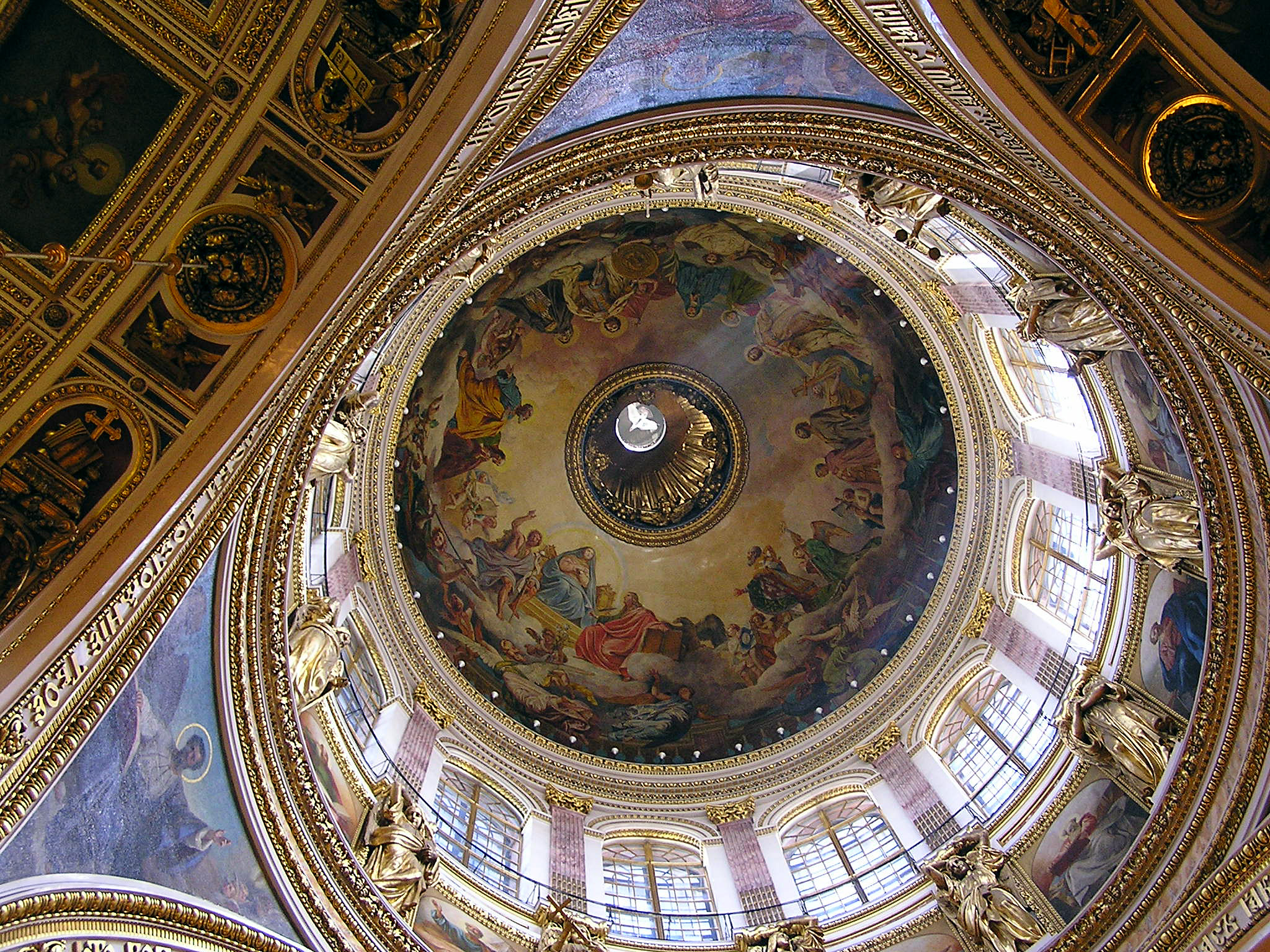 The Dome of Saint Isaac´s Cathedral in Saint Petersburg, Russia. The twelve gilt angels by Josef Hermann that stand at the base of the cupola are each about 6 meters tall; they were among the first sculptures produced by electrotyping (galvanoplastic) techniques.